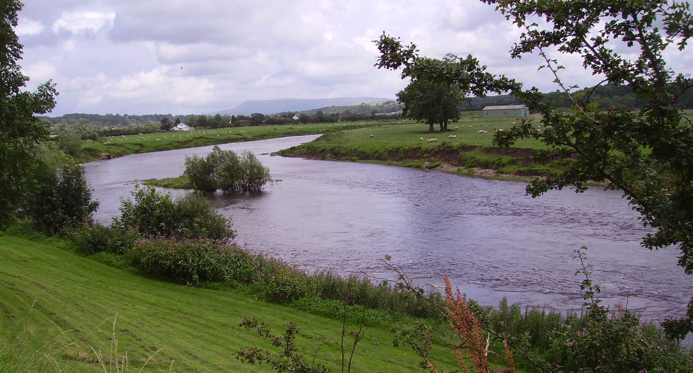 view of Ribchester, United Kingdom